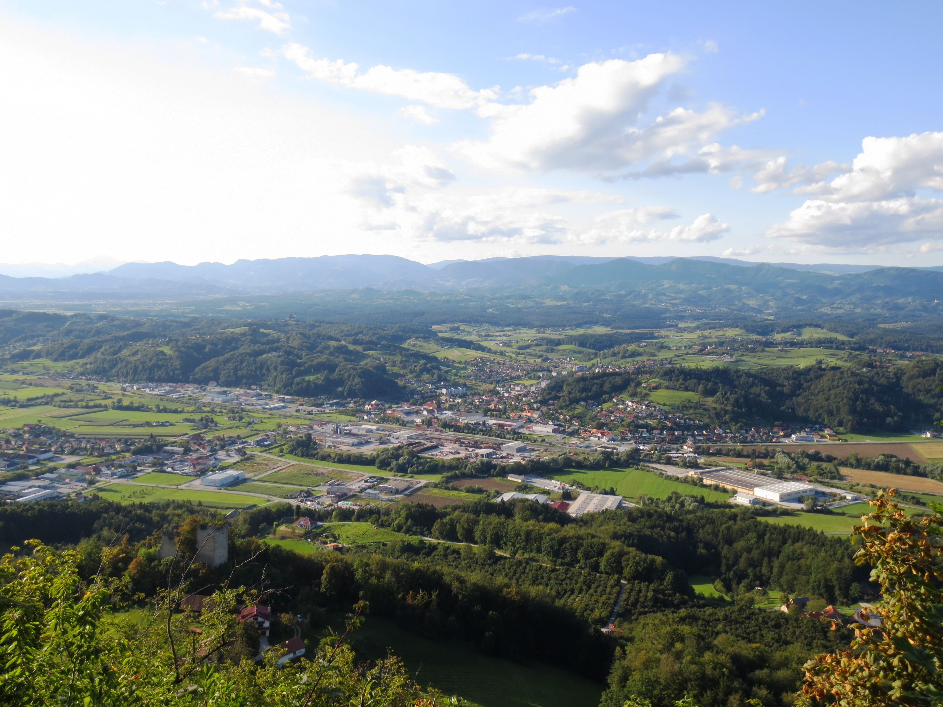 Šenjur near Celje